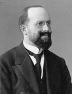 s